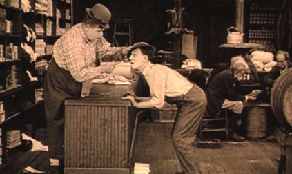 Roscoe Arbuckle and Buster Keaton in the American film The Butcher Boy, 1917, dir. Roscoe Arbuckle.